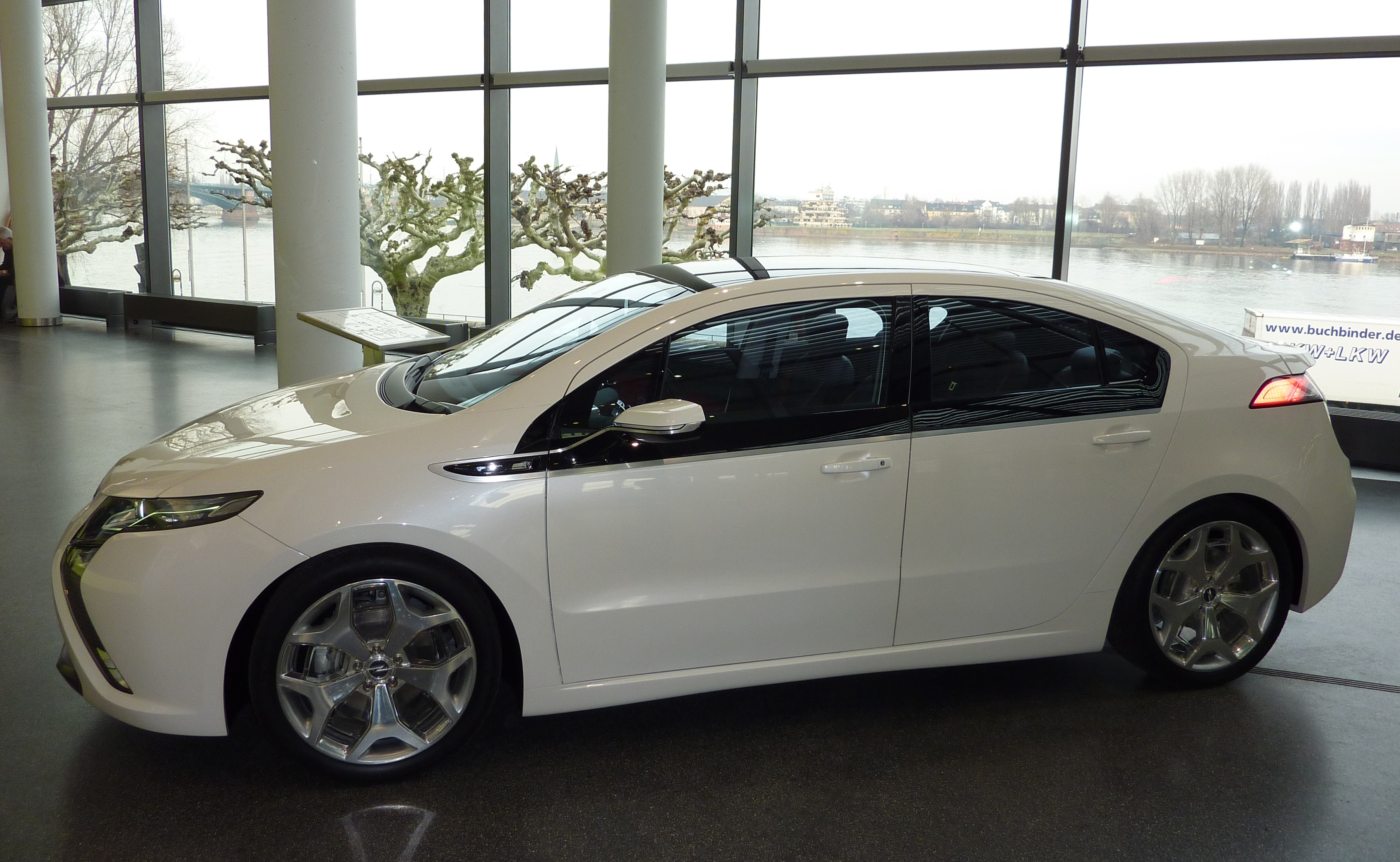 Opel Ampera at the AABC Conference in Mainz, Germany